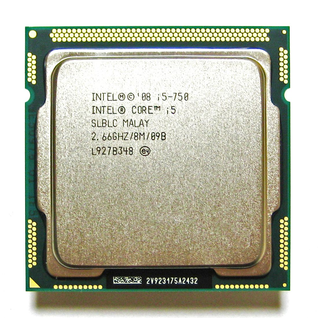 Intel Core i5 750.